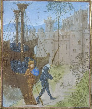 Mahdia-Crusade 1390: The French army disembarking in Africa, led by the duke of Bourbon (Louis II) holding a shield bearing the royal arms of France. (British Library, Royal 14 D VI f. 84v)